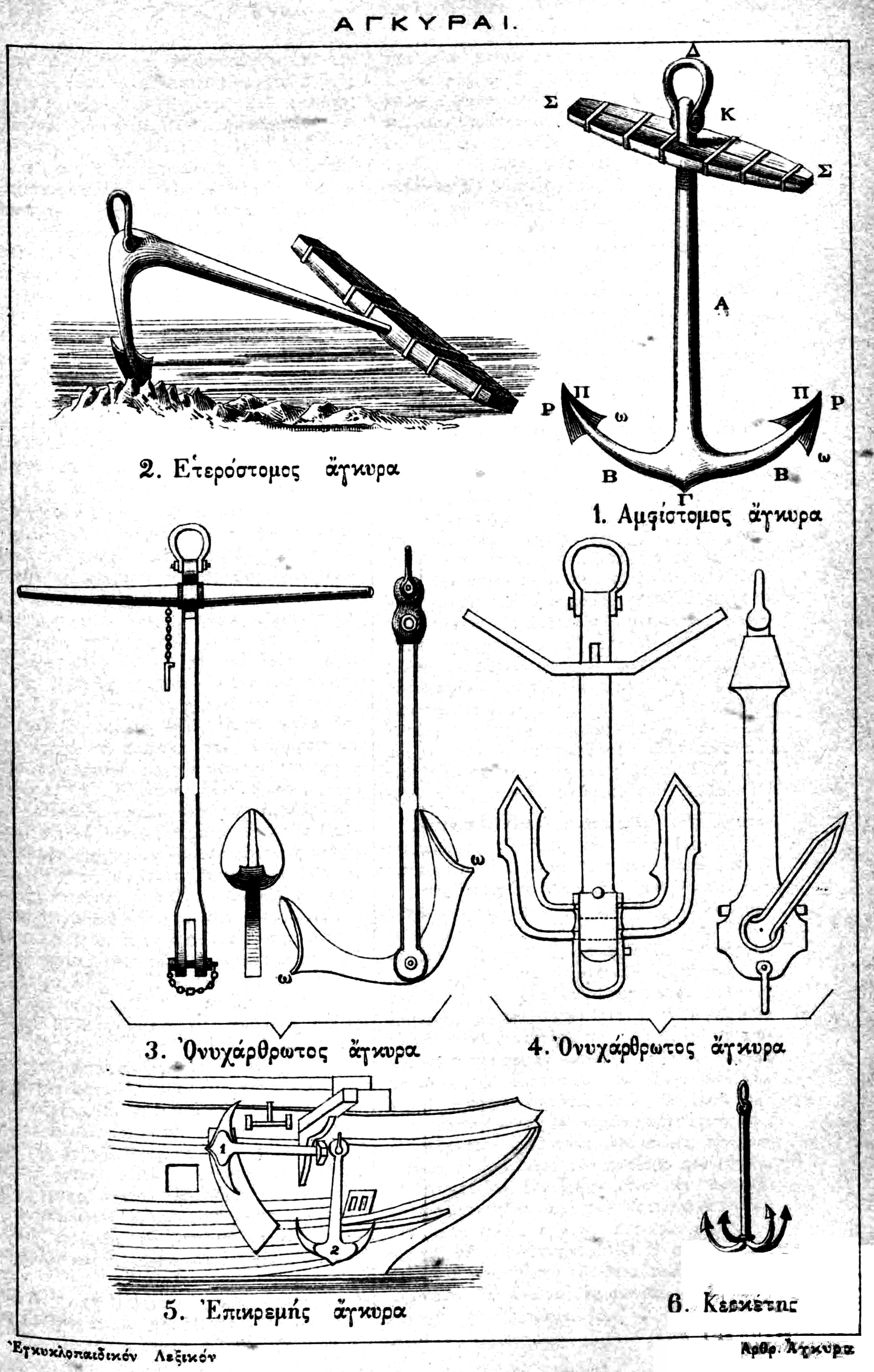 Anchors by type